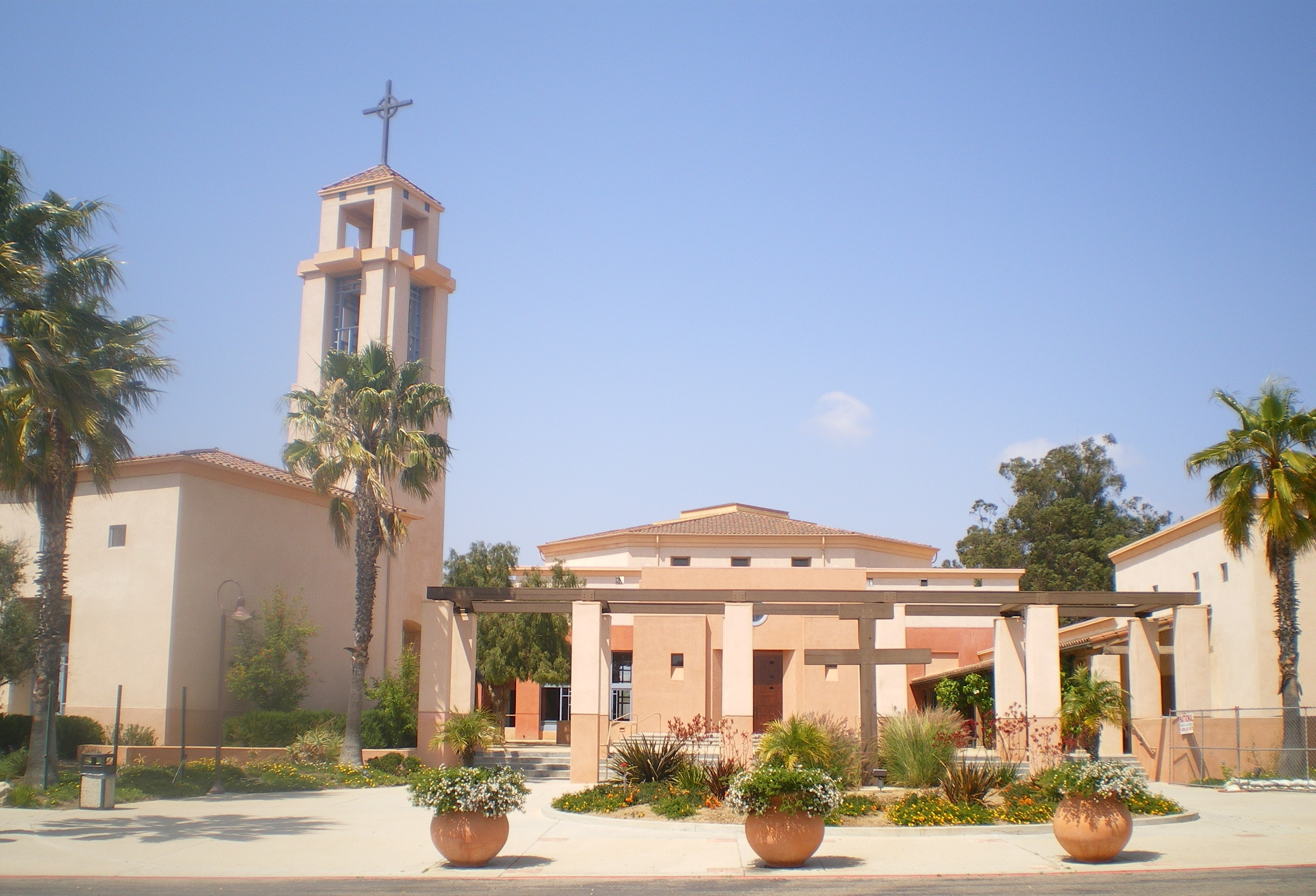 Father Juniperro Serra Catholic Church, Camarillo, California